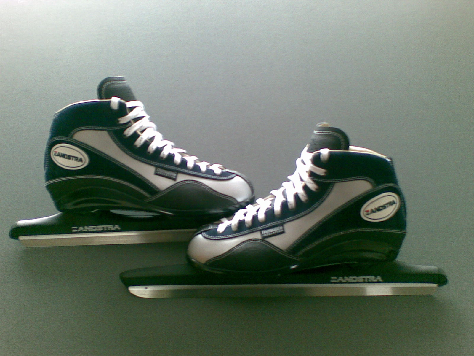 Zandstra noren